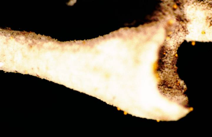 Cladonia fimbriata (L.) Fr., 1831 (photograph of a herbarium specimen taken through a dissecting microscope (x24) showing a podetium with a trumpet-shaped cup) Growing on Pottsville sandstone boulder 50 feet along a dirt road running W from the intersection of Oakland-Sang-Run Road and Mayhew Inn Road (near W end of Deep Creek Lake), Garrett County, Maryland, USA; collected and identified by A. Norden and B. Ball (No. 139, 30 Dec 1972); specimen is now in the Lichen Herbarium of the New York Botanical Garden.